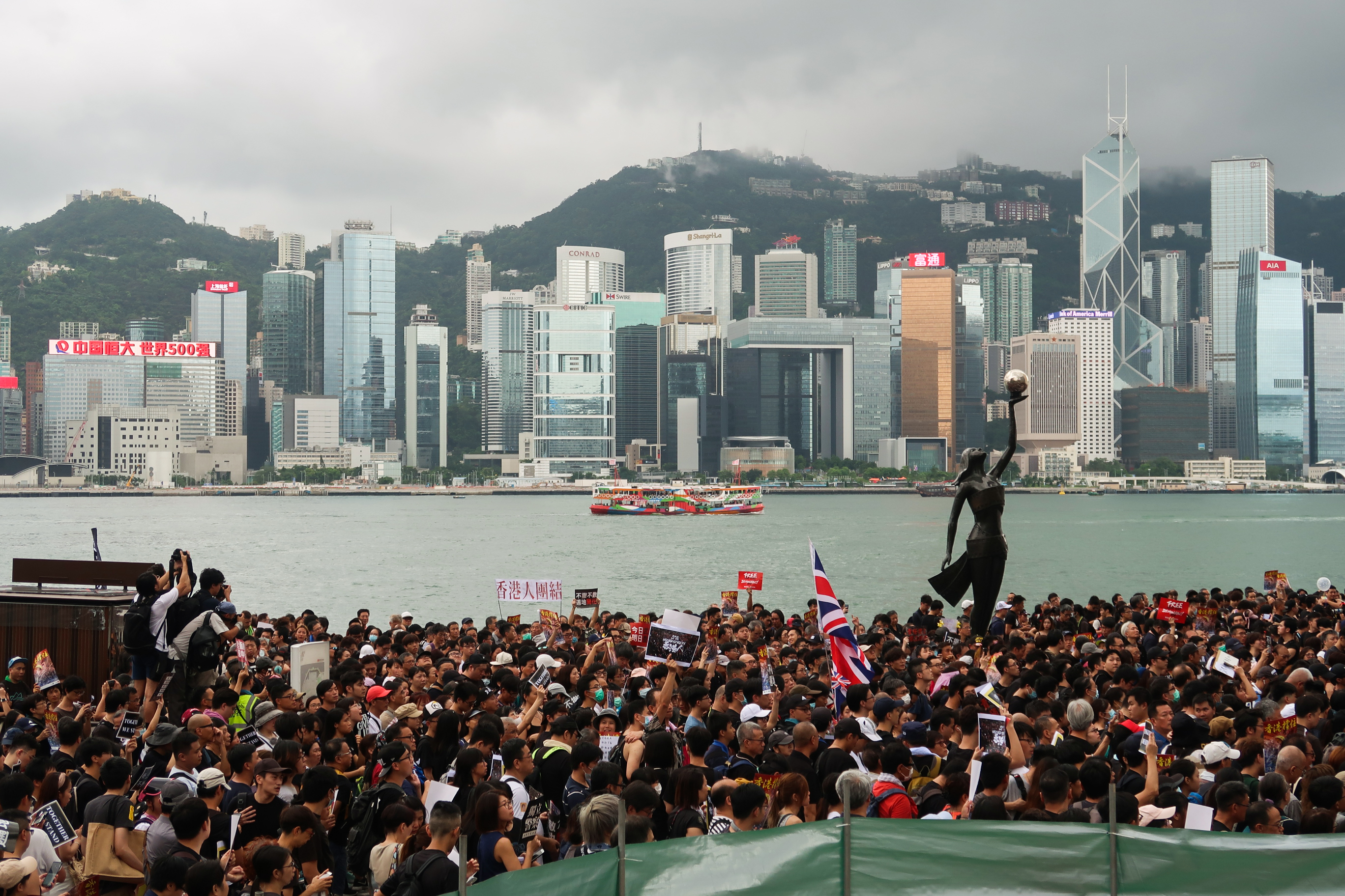 Avenue of Stars Protesters